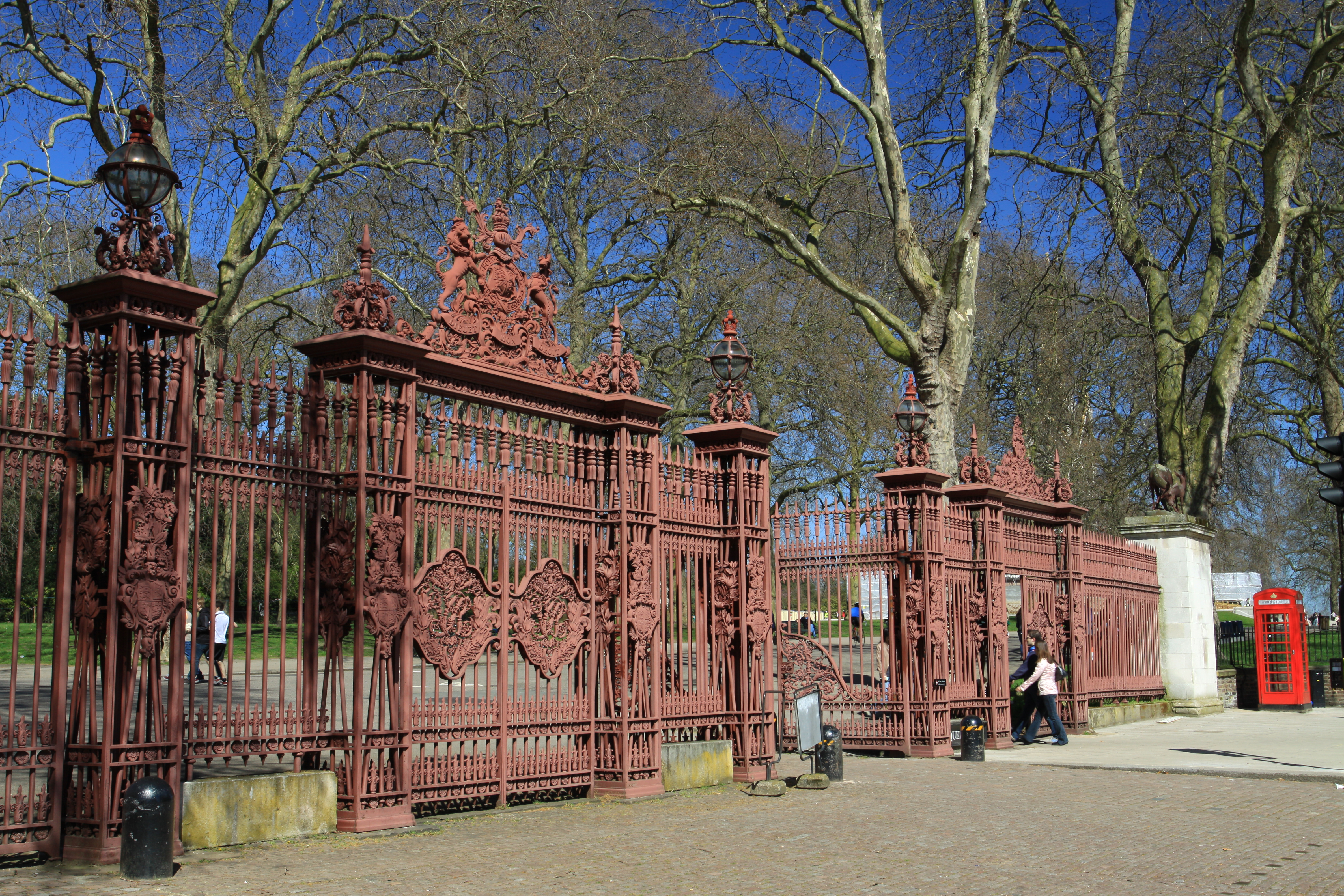 Detail to the Queen's Gate, a major southern gate of Kensington Gardens, the City of Westminster, London, Great Britain. The making of this file was supported by Wikimedia UK.